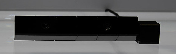 The camera peripheral for the PlayStation 4 console at E3 2013